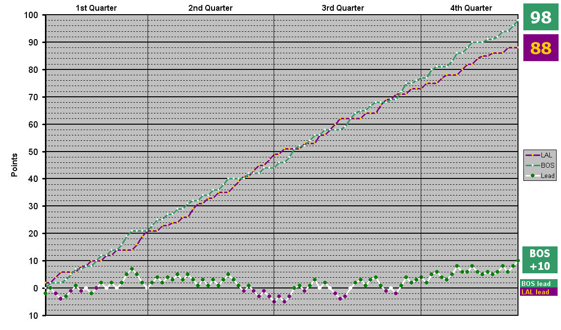 Running score of Game 1 of the 2008 NBA Finals. Reference